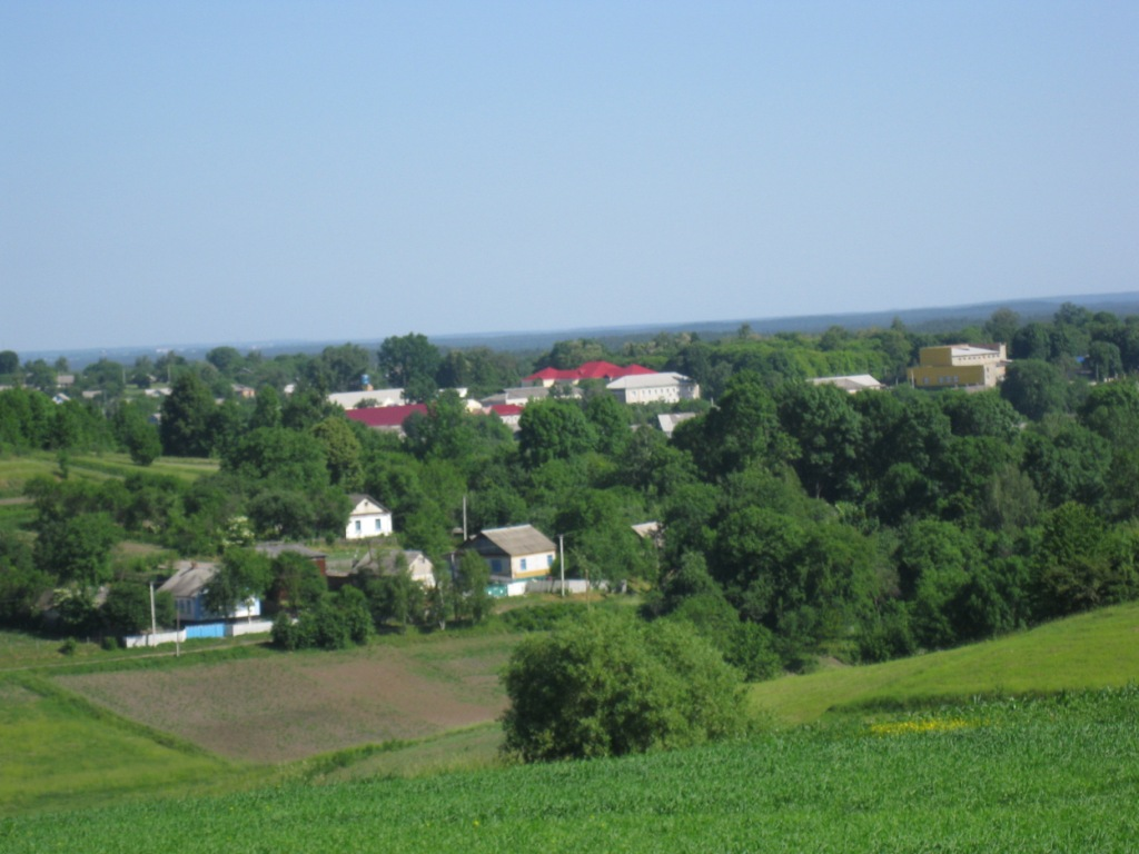 Pluzhne. View on tsenter